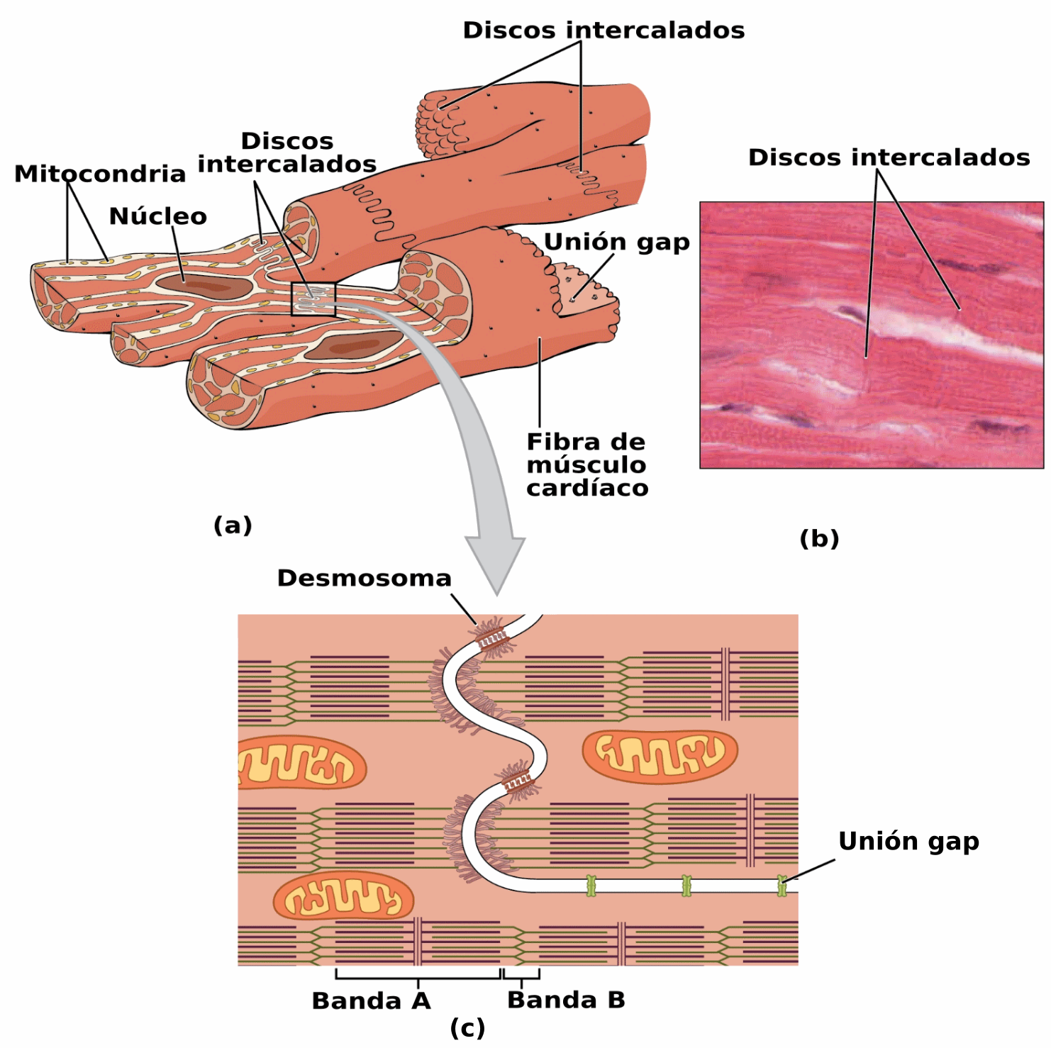 Anatomical illustration of Cardiac muscle